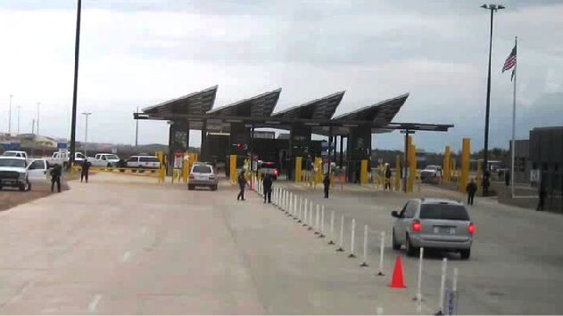 The Anzalduas port of entry in 2009. Image captured from a GSA video